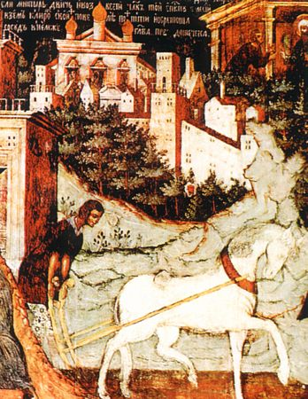 Second finding of John the Baptist's head